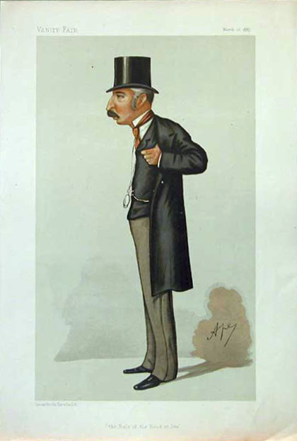 Statesmen No.516: Caricature of Capt John Charles Ready Colomb MP. Caption reads: "The Rule of the Road at Sea"